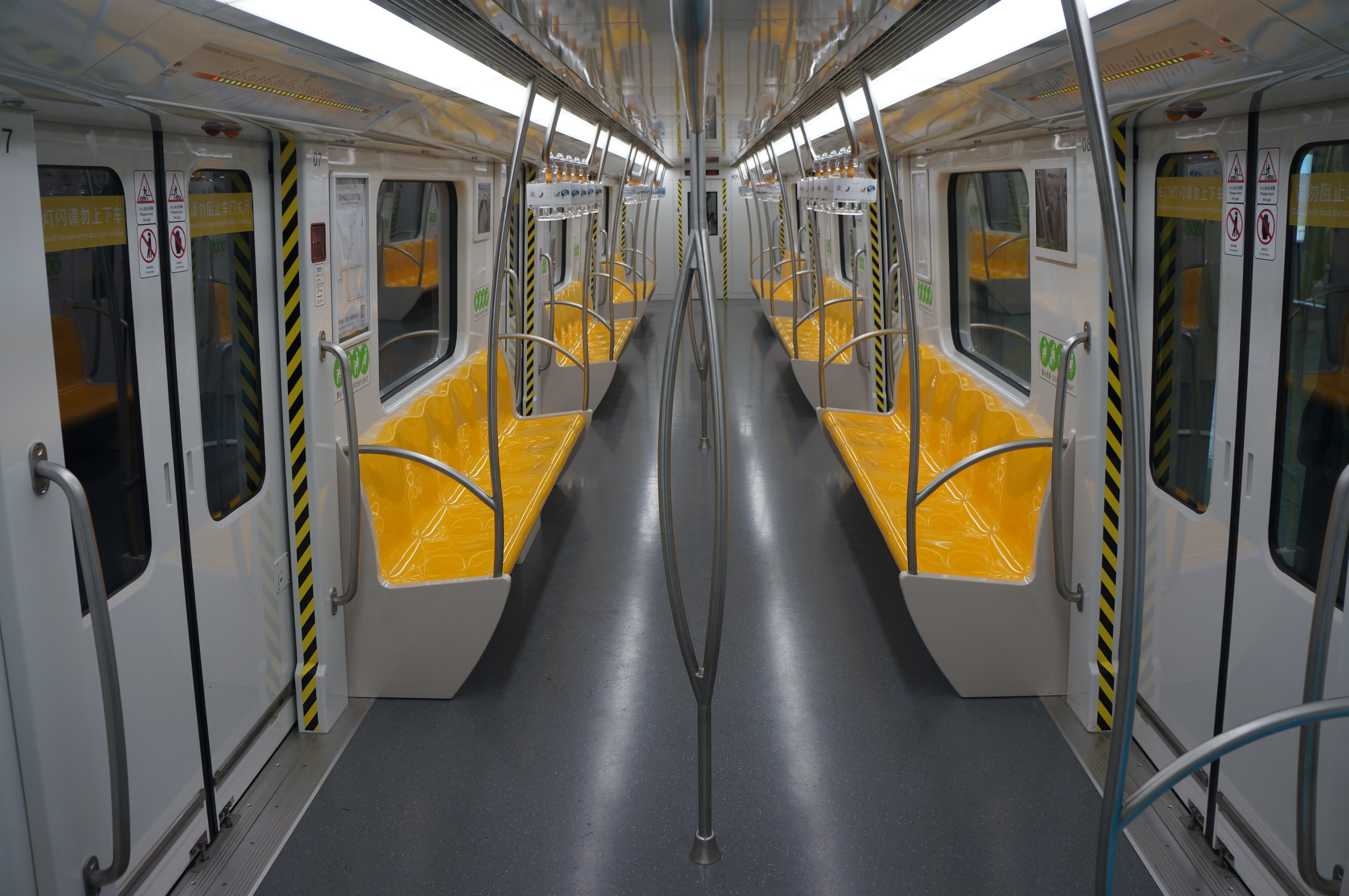 201610 Interior of SRT L2 Rolling Stock